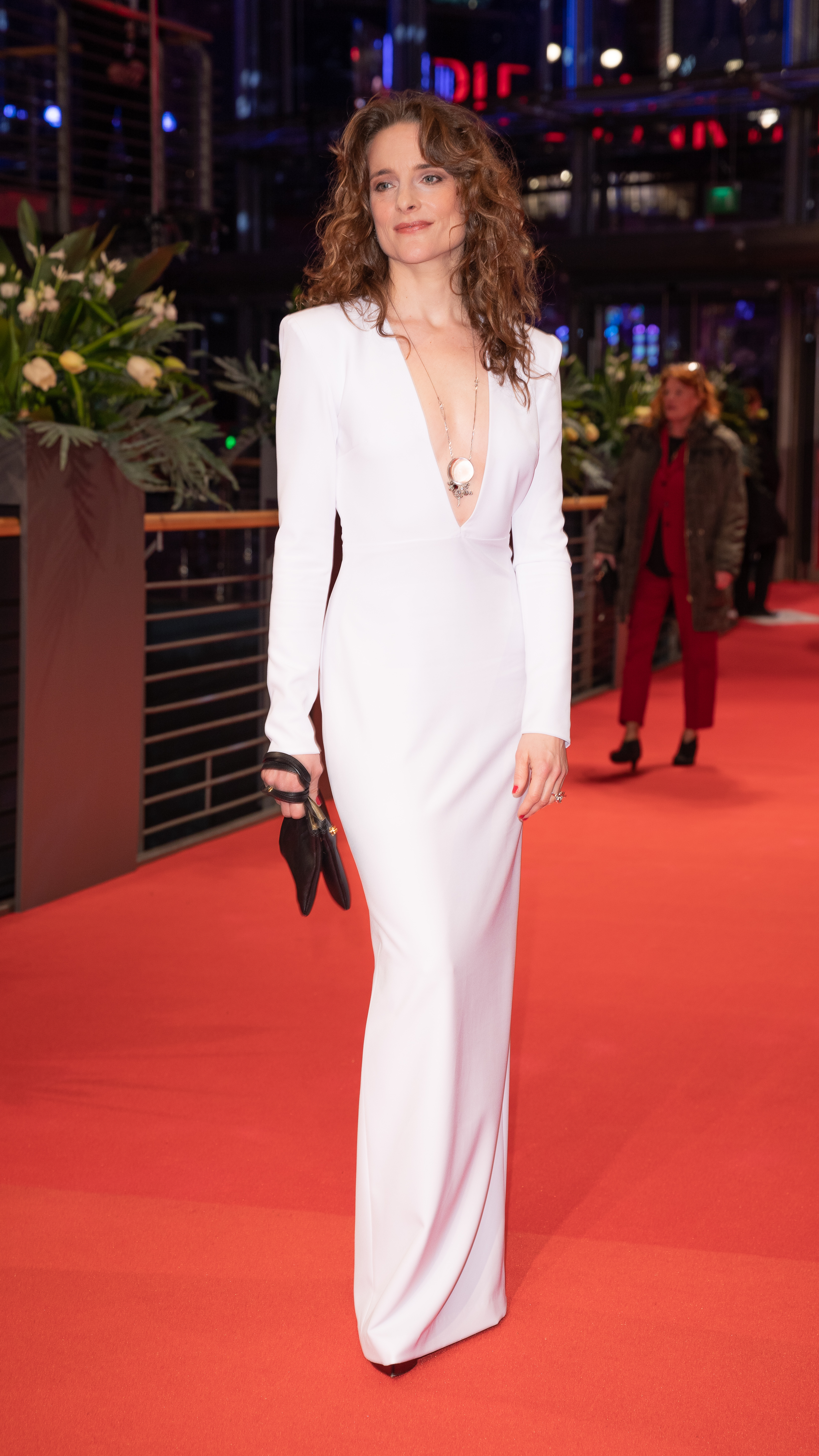 Anne Ratte-Polle at the Berlinale 2020